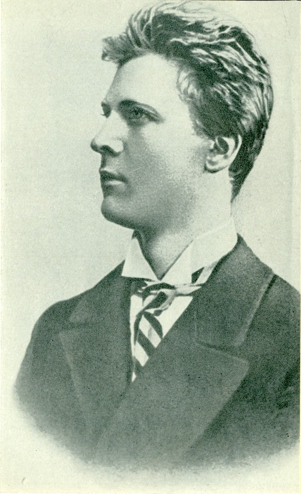 Russian bass, Feodor Chaliapin (1873 - 1938)